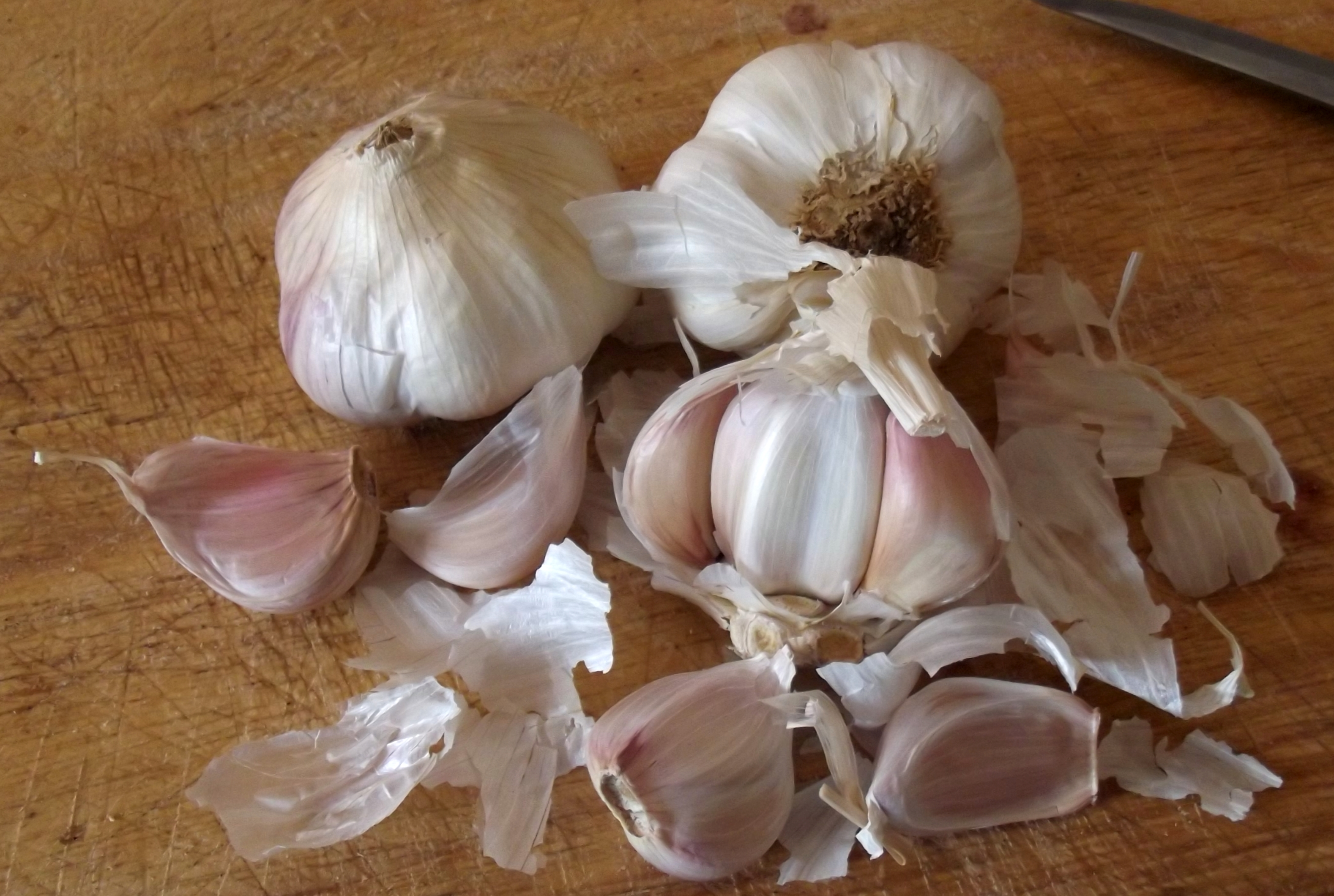 Aglio di Voghiera: bulbs and cloves